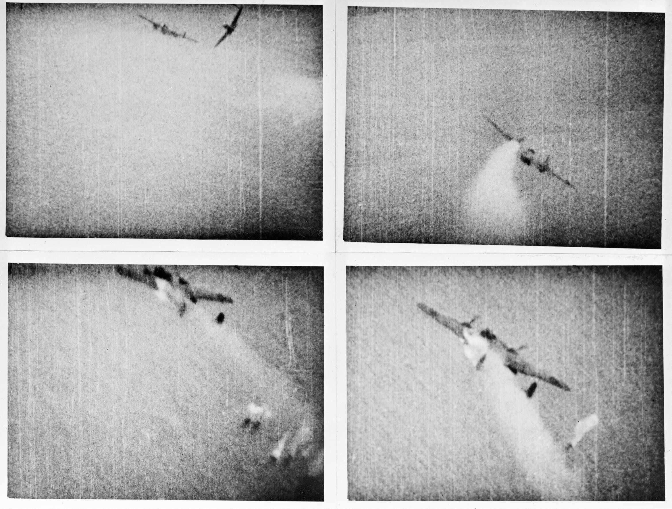 Royal Air Force 1939-1945- Fighter Command The last moments of a Dornier Do217 over Dieppe on 19 August 1942, as recorded by Sergeant Helge Sognnes of No 331 Squadron. A member of the bomber's crew can be seen escaping by parachute, moments before the aircraft plunged into the sea.